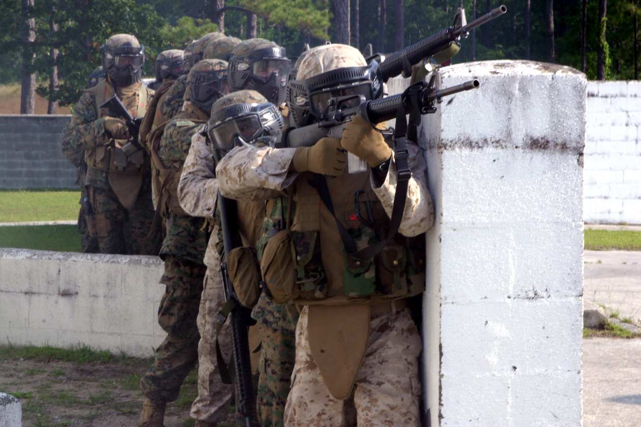 Lance Cpl. William C. Michener, a field artilleryman with 3rd Battalion, 10th Marine Regiment, and the rest of his squad post against a wall before entering a building at the military operations on urban terrain facility here, June 5. Michener and his battalion were trained in basic infantry tactics in urban environment during the five-day exercise. Photo by: Josephh Stahlman Photo ID: 20067795626 Submitting Unit: 2nd Marine Division Photo Date:07/07/2006